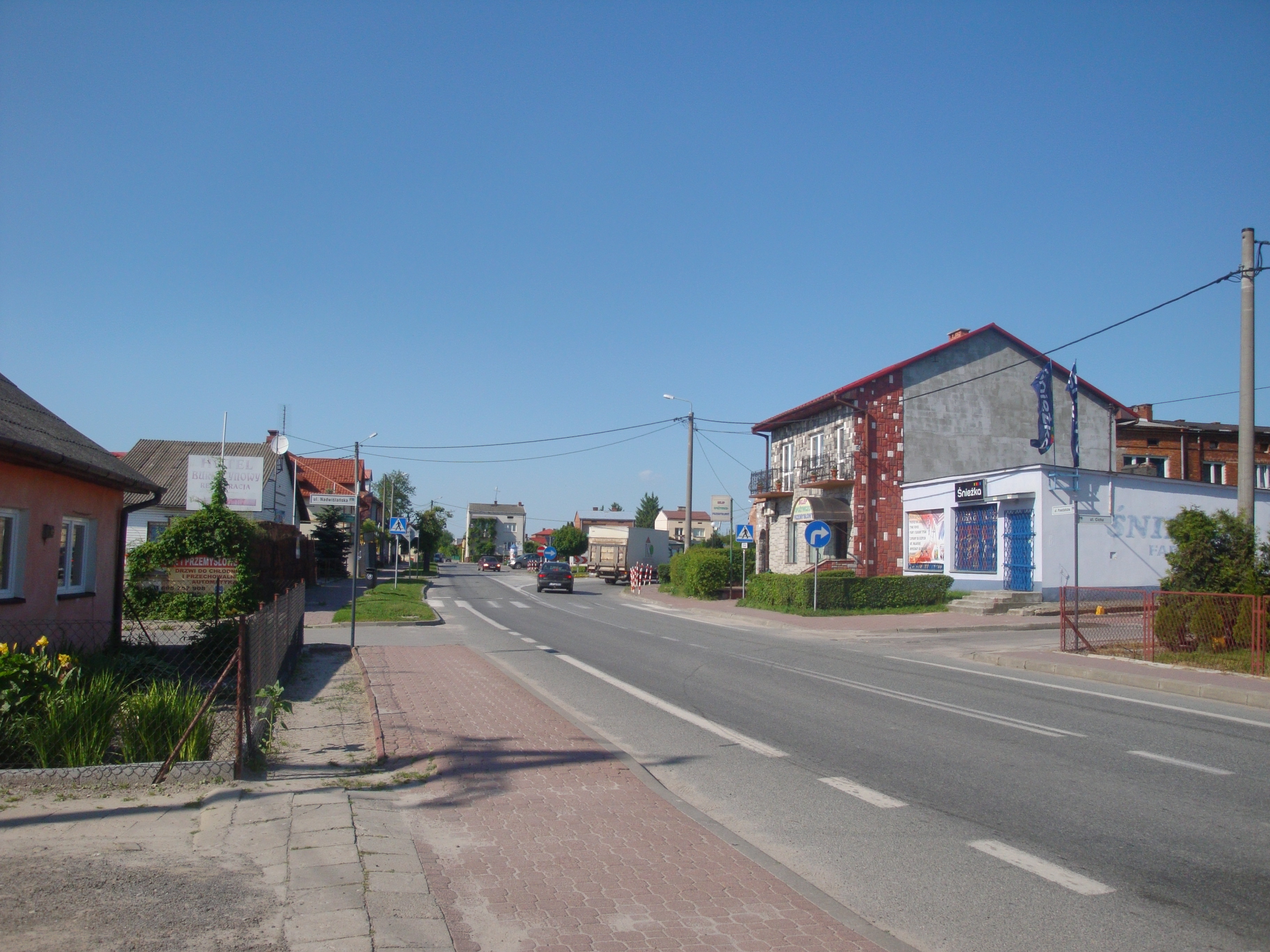 Józefów nad Wisłą - village in Lublin Voivodeship, Poland.